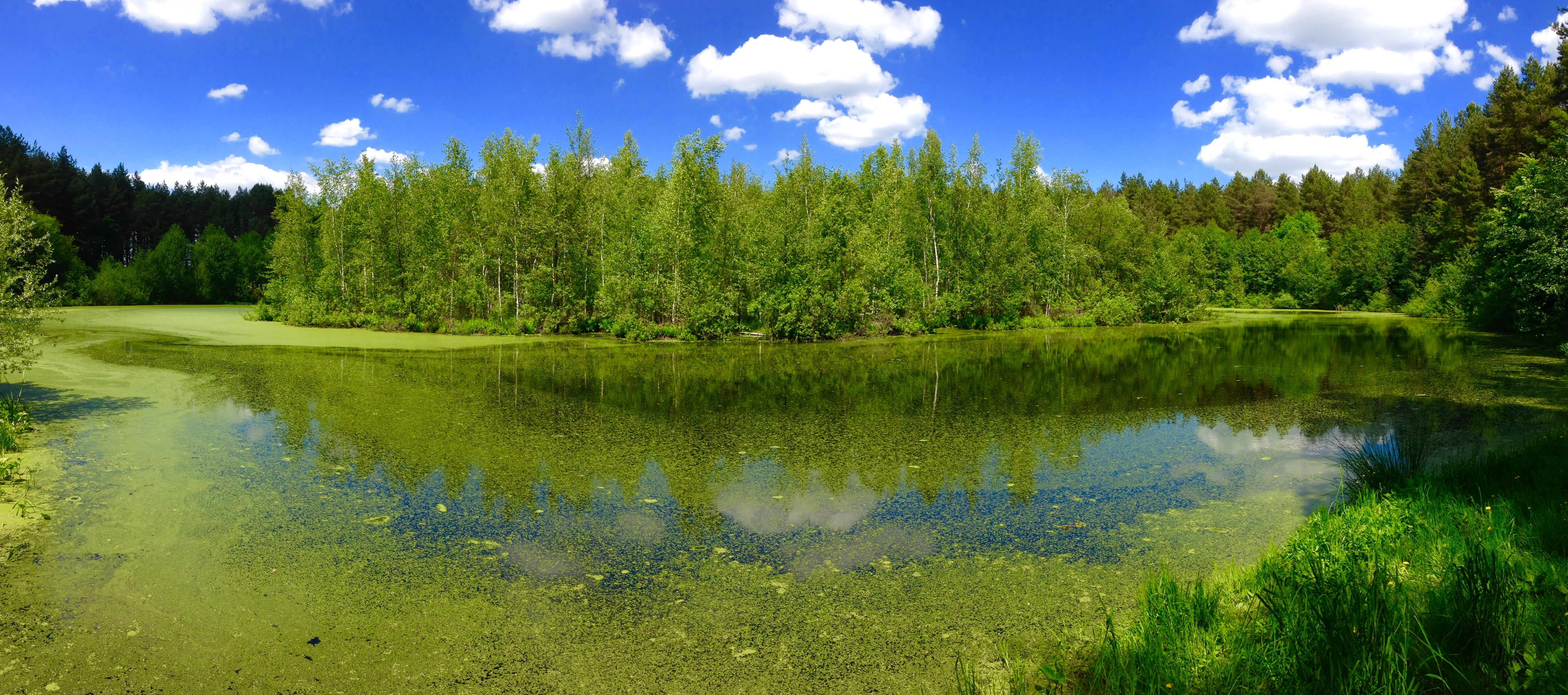 Zhuravlyne lake in Sumy Oblast (Ukraine)